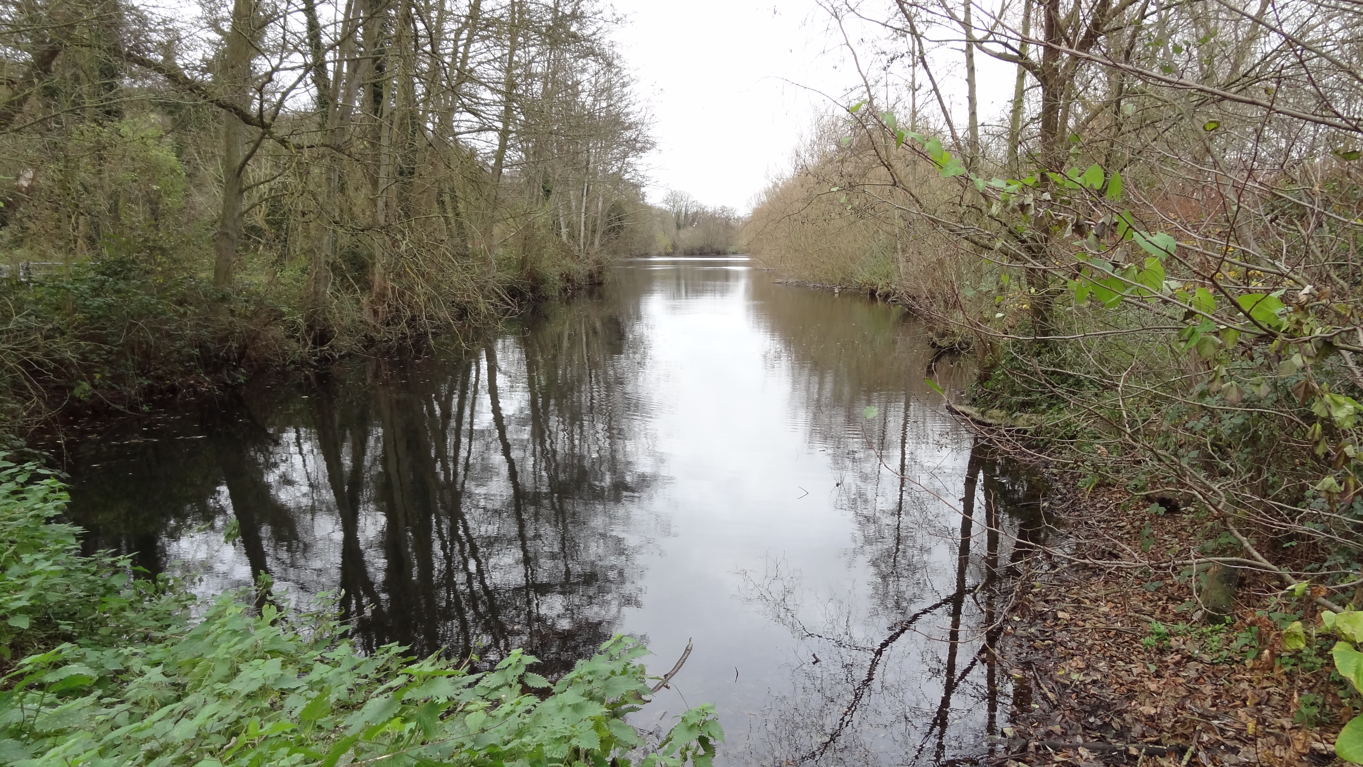 Long Pond, Mid Colne Valley SSSI, Harefield, Hillingdon, London